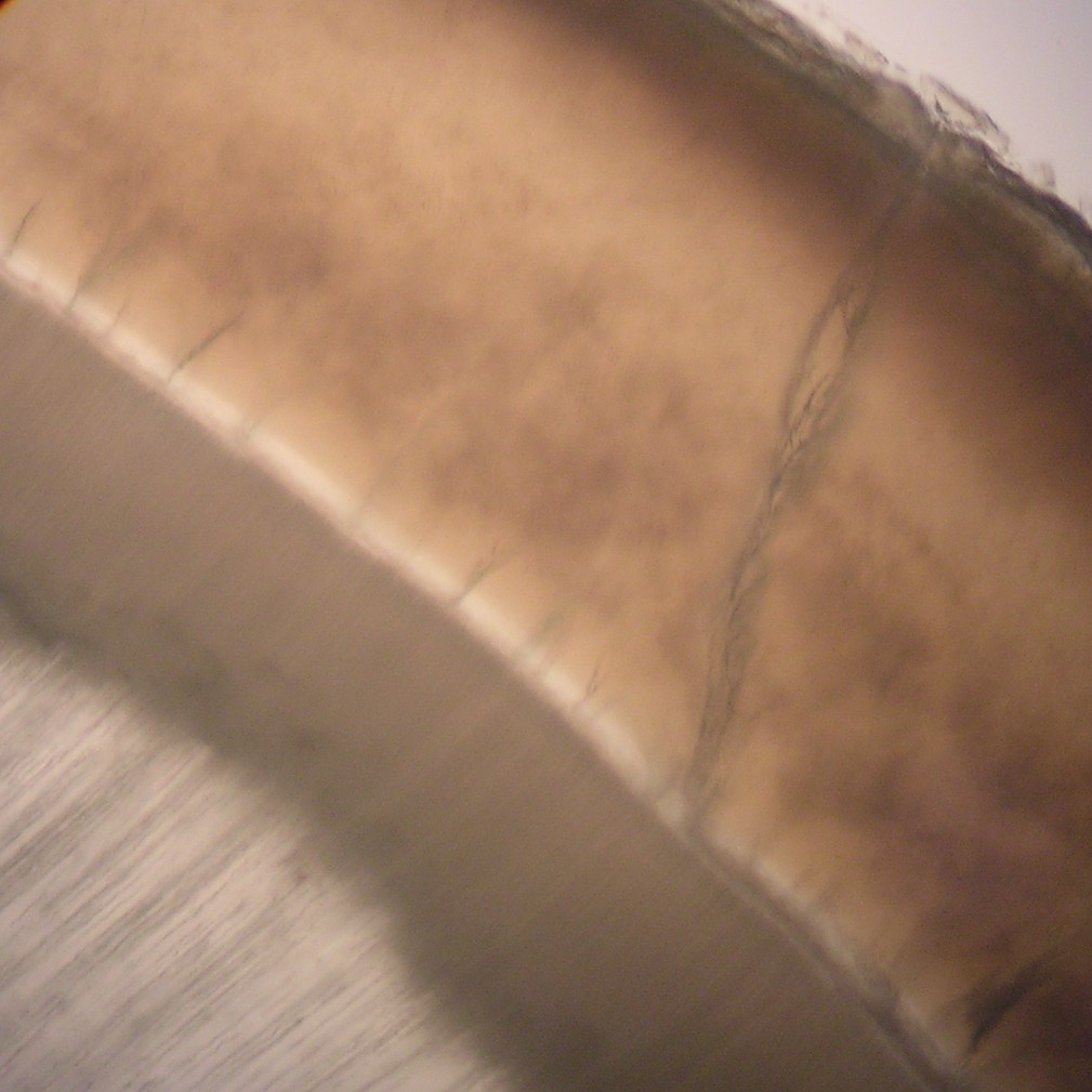 Histologic cross-section of a tooth showing the enamel and dentin, with enamel lamellae and enamel tufts visible. Source: Photo taken by user:dozenist.